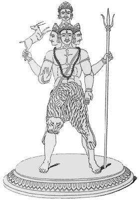 RUDRA, "a storm god and embodiment of wildness and unpredictable danger." (p. 338) FROM THE RIG VEDA: "The fierce, tawny god of many forms has adorned his firm limbs with shimmering gold. Never let the Asura power draw away from Rudra, the ruler of this vast world. Rightly you carry the arrows and bow; rightly you wear the precious golden necklace shaped with many forms and colours; rightly you extend this terrible power over everything. There is nothing more powerful than you, Rudra. Praise him, the famous young god who sits on the high seat, the fierce one who attacks like a ferocious wild beast. O Rudra, have mercy on the singer, now that you have been praised. Let your armies strike down someone other than us." (p. 222)